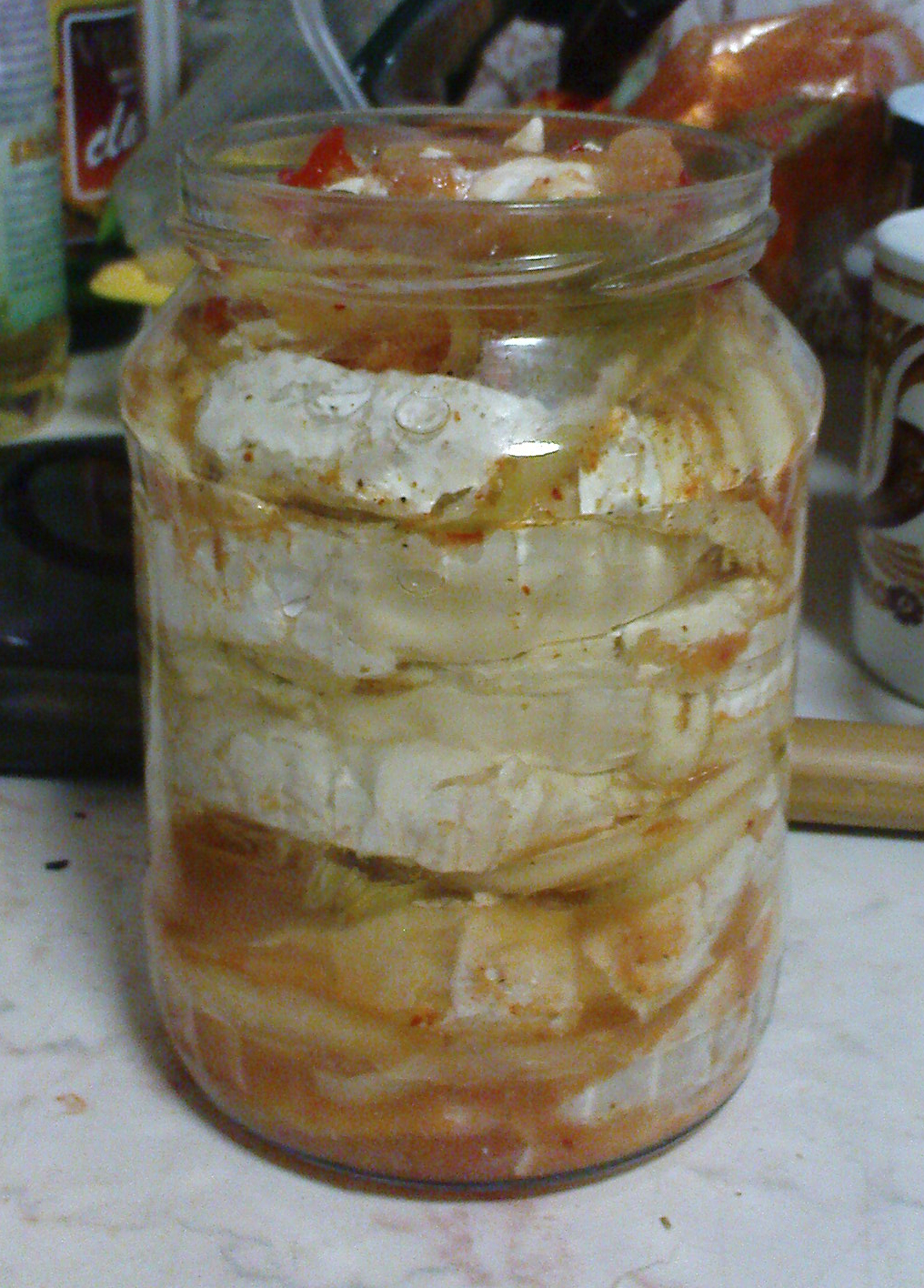 Marinated hermelin (surrogate of camembert), a typical Czech dish